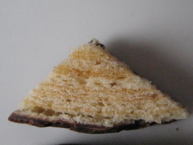 cut Baumkuchenspitze to see the ring-like structure